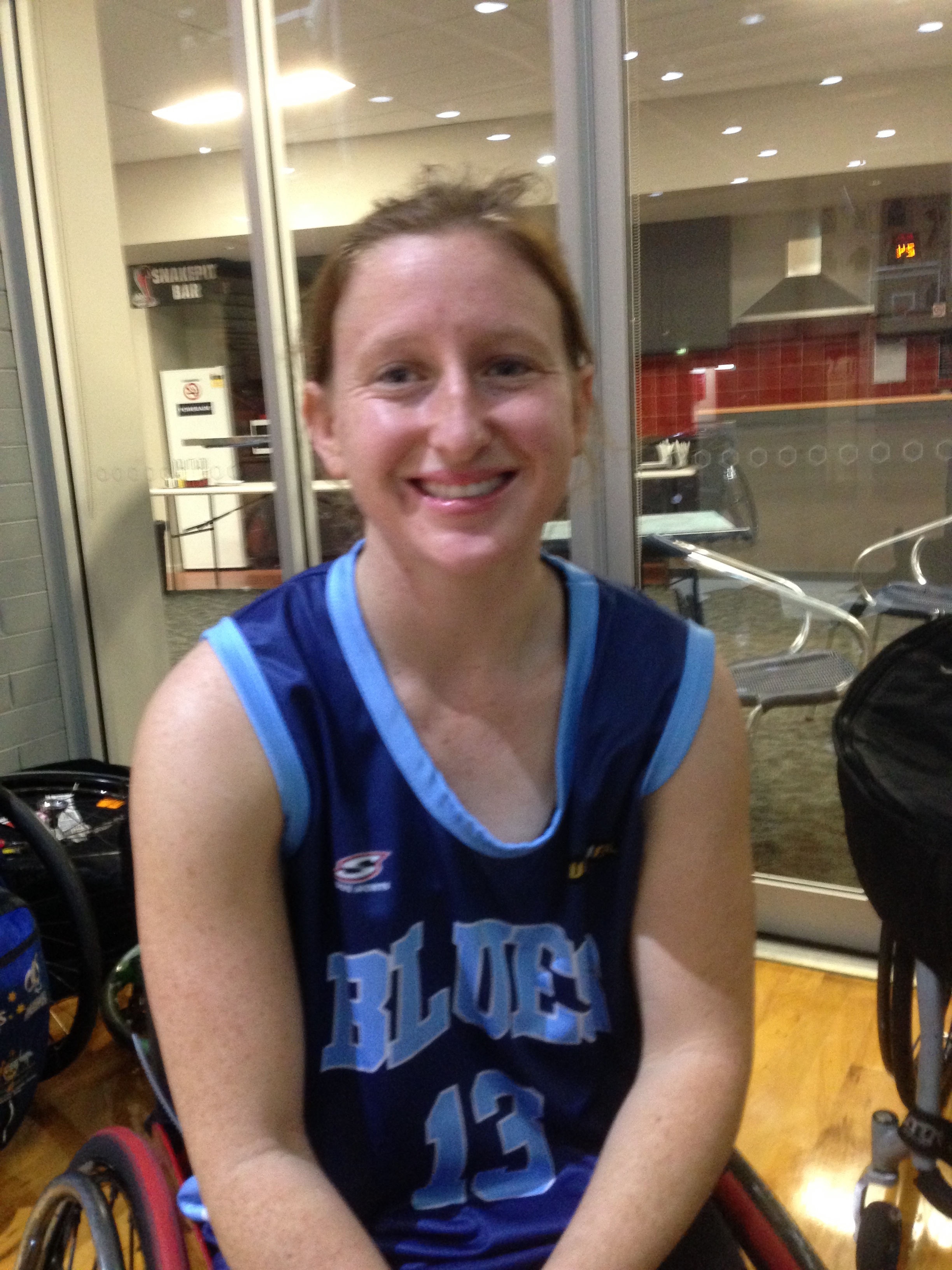 Wheelchair basketball player Courtney Ryan